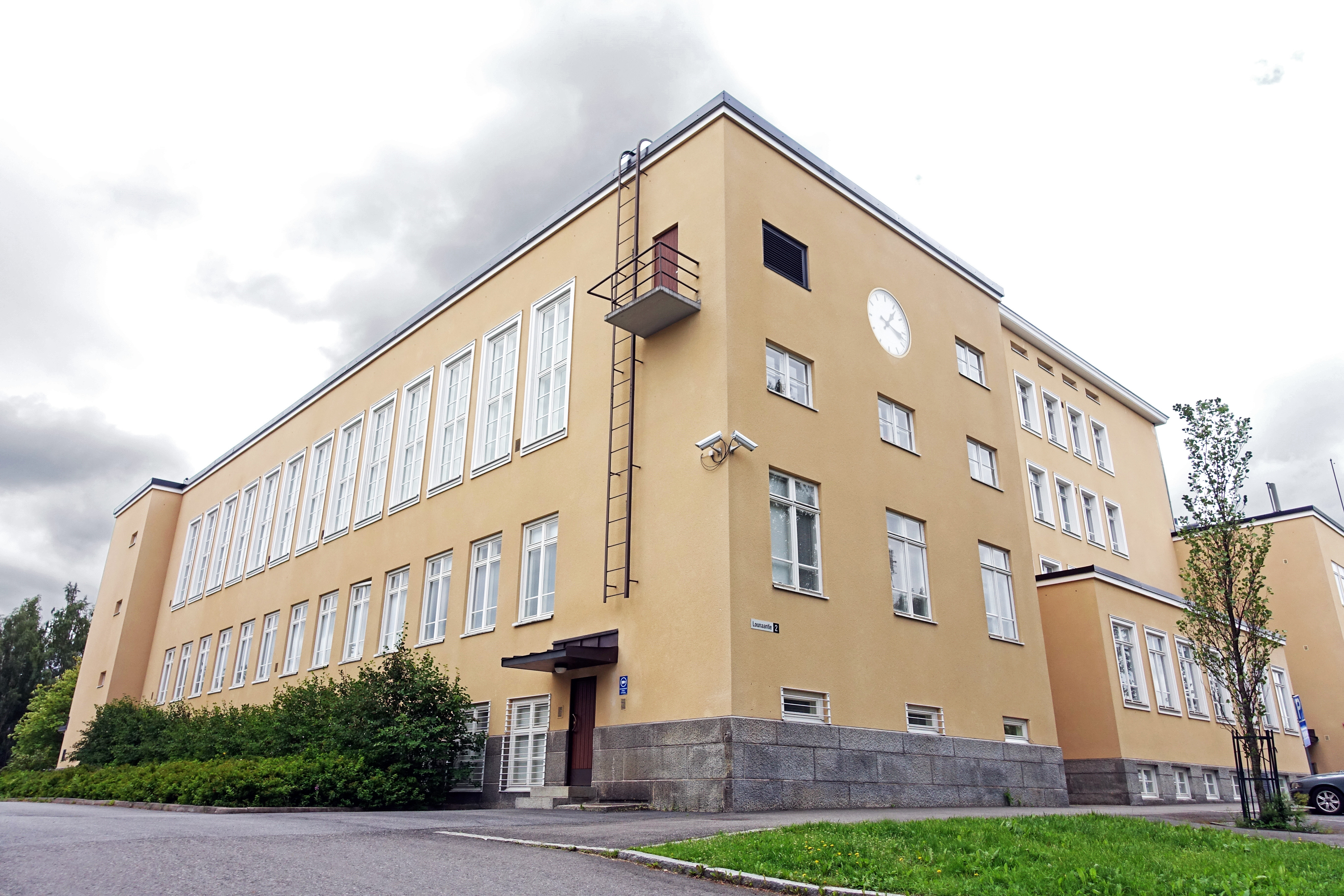 Nekala school in Tampere, Finland.